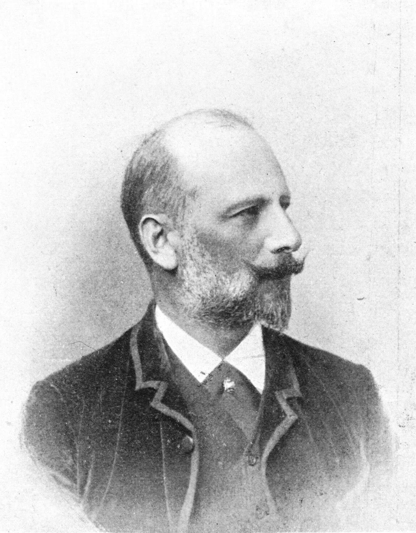 Richard Wolffenstein, German architect, 1846-1919